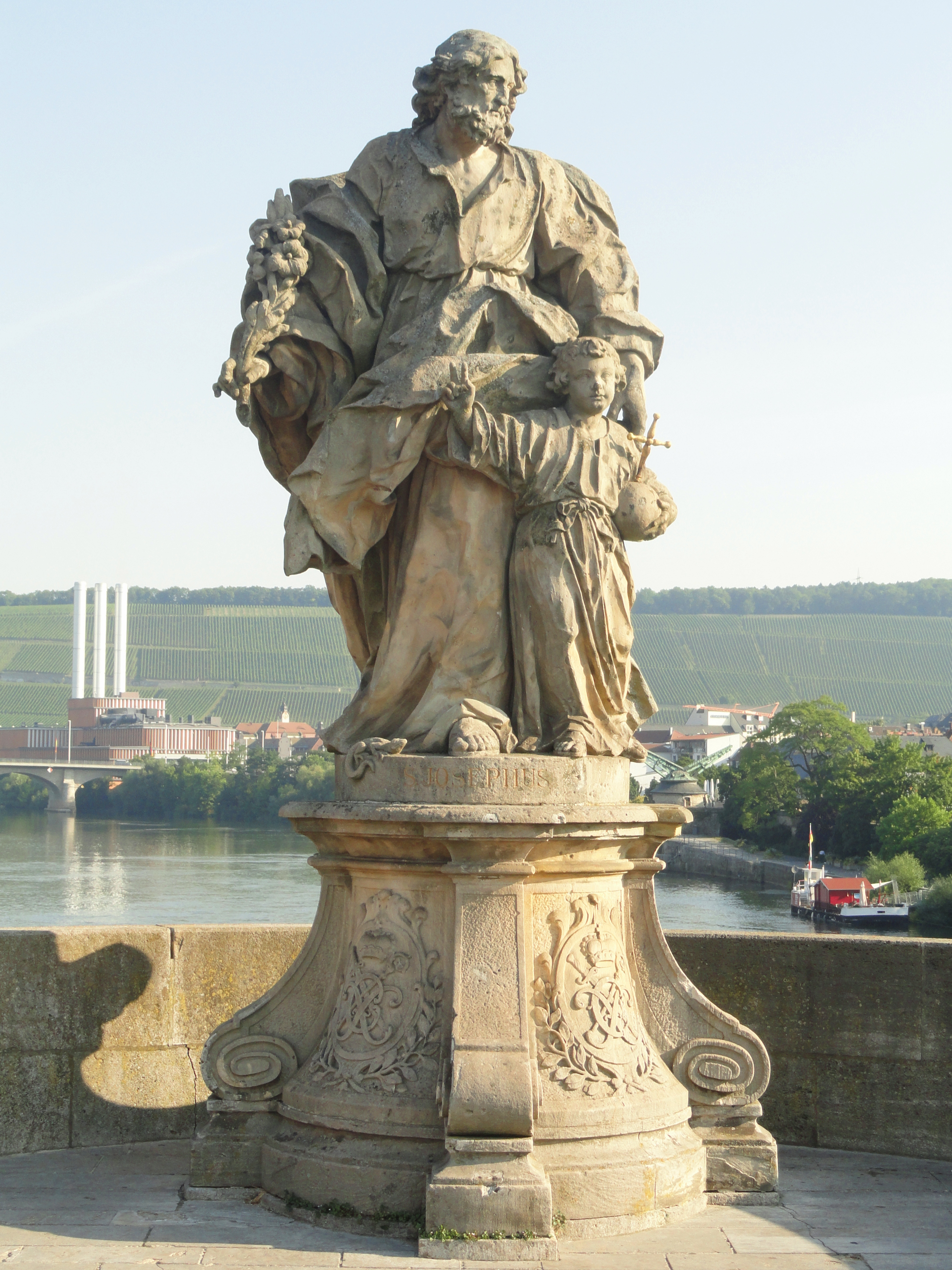 Statue on the Alte Mainbrücke in Würzburg, Germany.